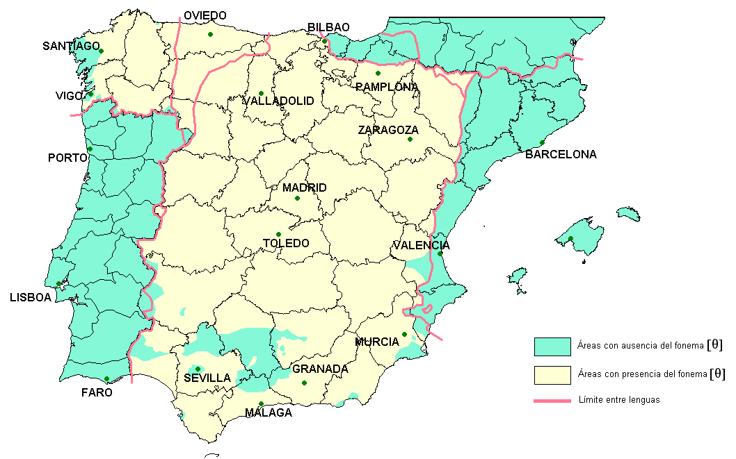 Iberian seseo